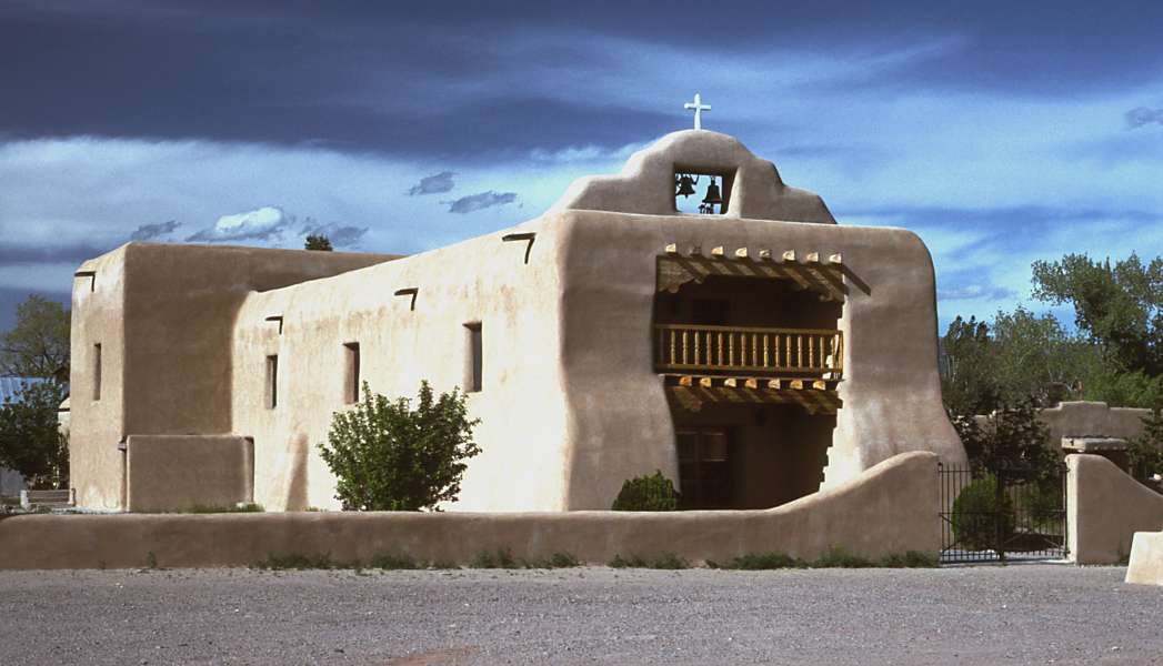 The adobe St. Thomas Church in Abiquiu.